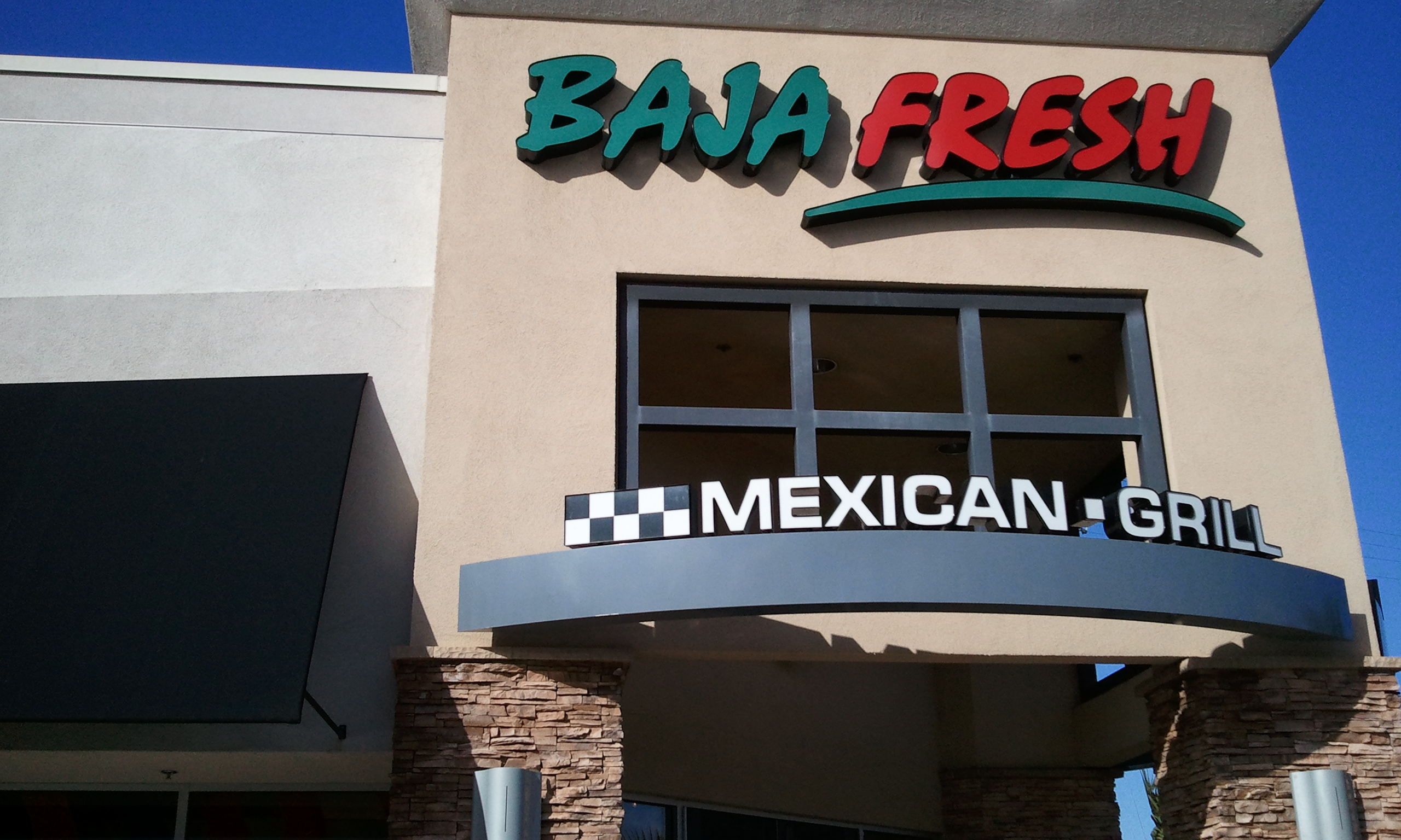 I like Baja Fresh. I have been to several of them and they are all the same. I prefer it for lunch, though, I have had several dinners at BF. My usual order is two Americano Soft Tacos and an order of Pronto Guacamole. I like that they immediately give you the chips and Guacamole to get started while waiting for your food. I also like the salsa bar giving 5 or 6 choices from mild to extra-hot. Another trick I use is they have $.99 refills of their big plastic drink bottles; believe it or not, I keep a drink bottle in the trunk of my car--you never know when you are going to stop by a Baja Fresh.